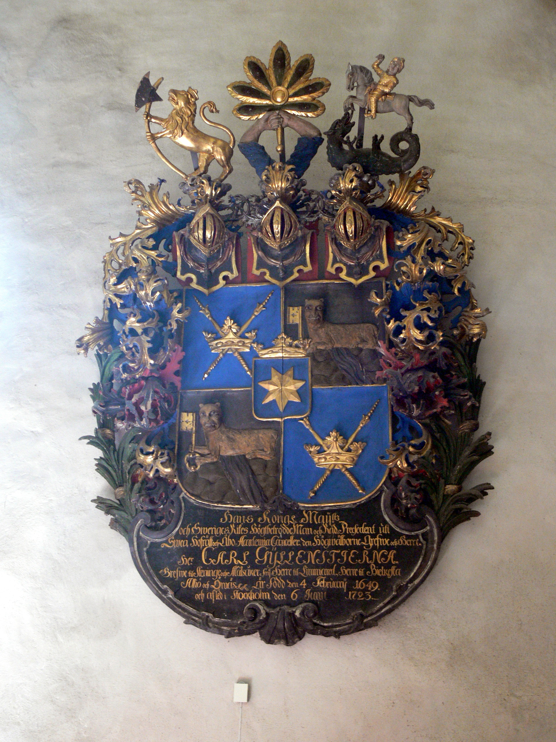 Ytterselo church. Coats of arms of Carl Gyllensterna, Lord of Malsaker castle, died in 1723.